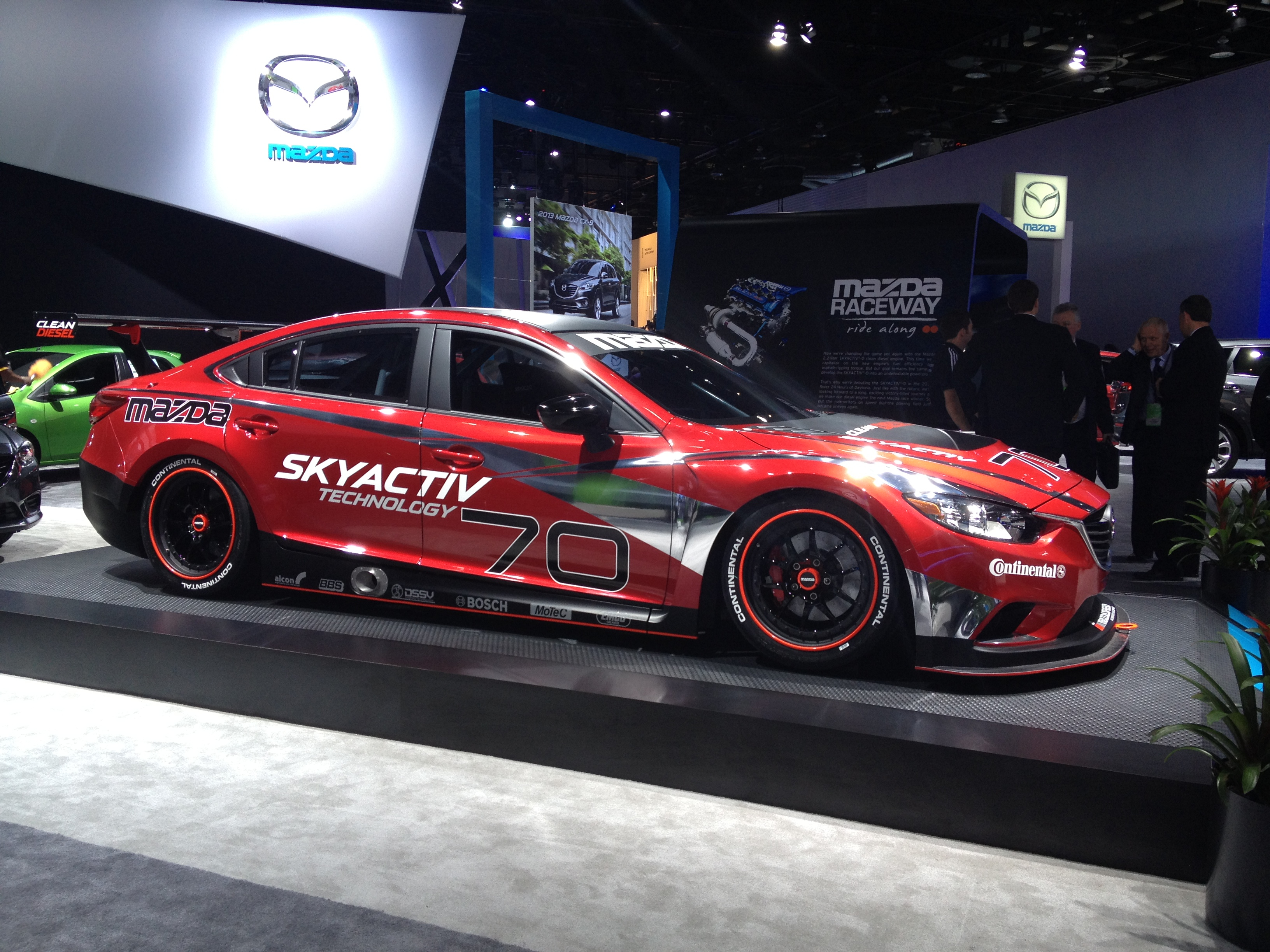 2013 North American International Auto Show Detroit, Michigan